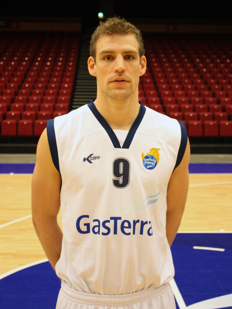 Ties Theeuwkens in the GasTerra Flames uniform for the 2011-2012 season